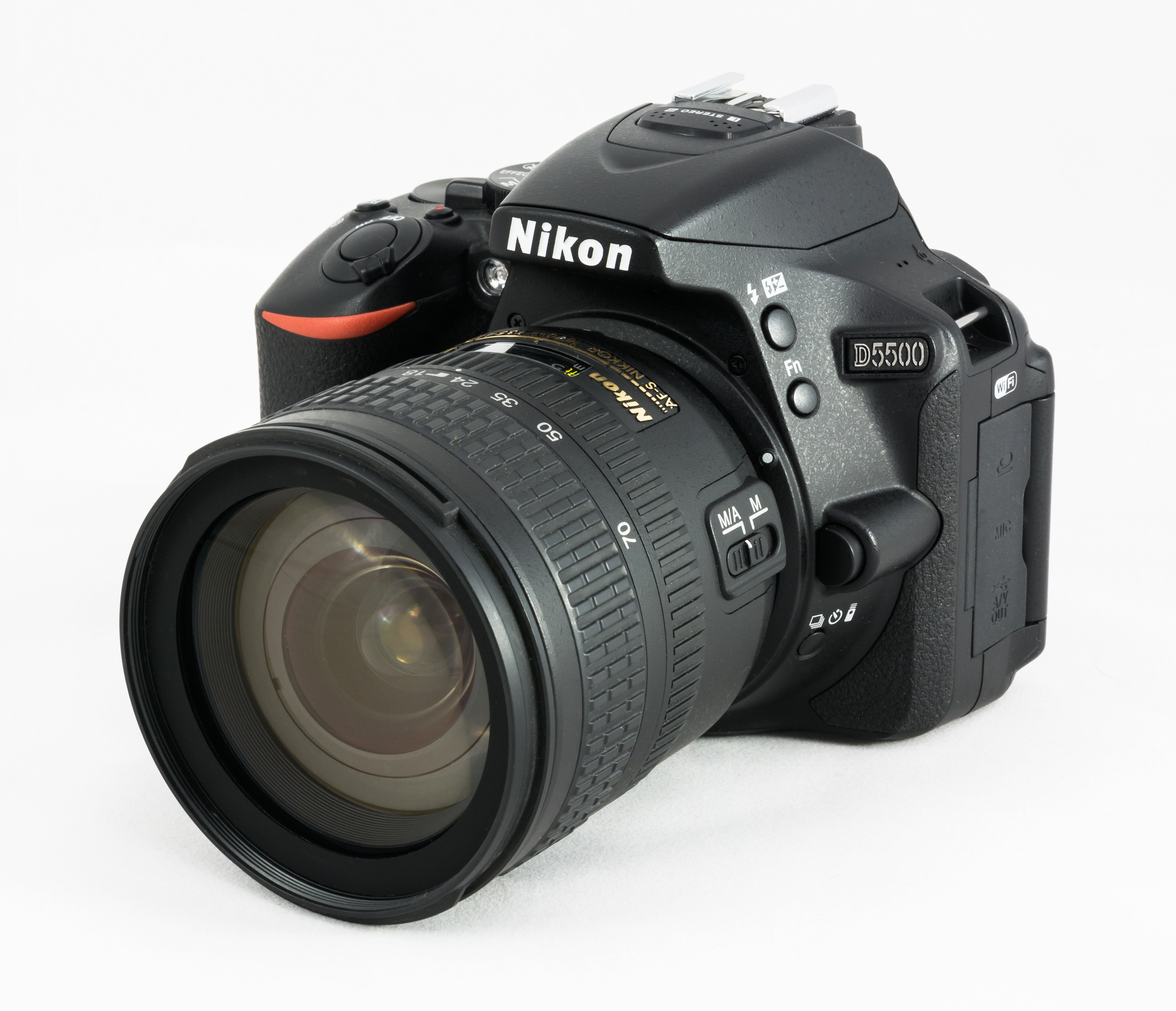 Nikon D5500 with Nikkor AF-S DX 18-70 mm f/3.5-4.5 lens